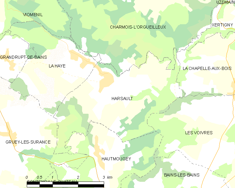 Map of French municipality Harsault